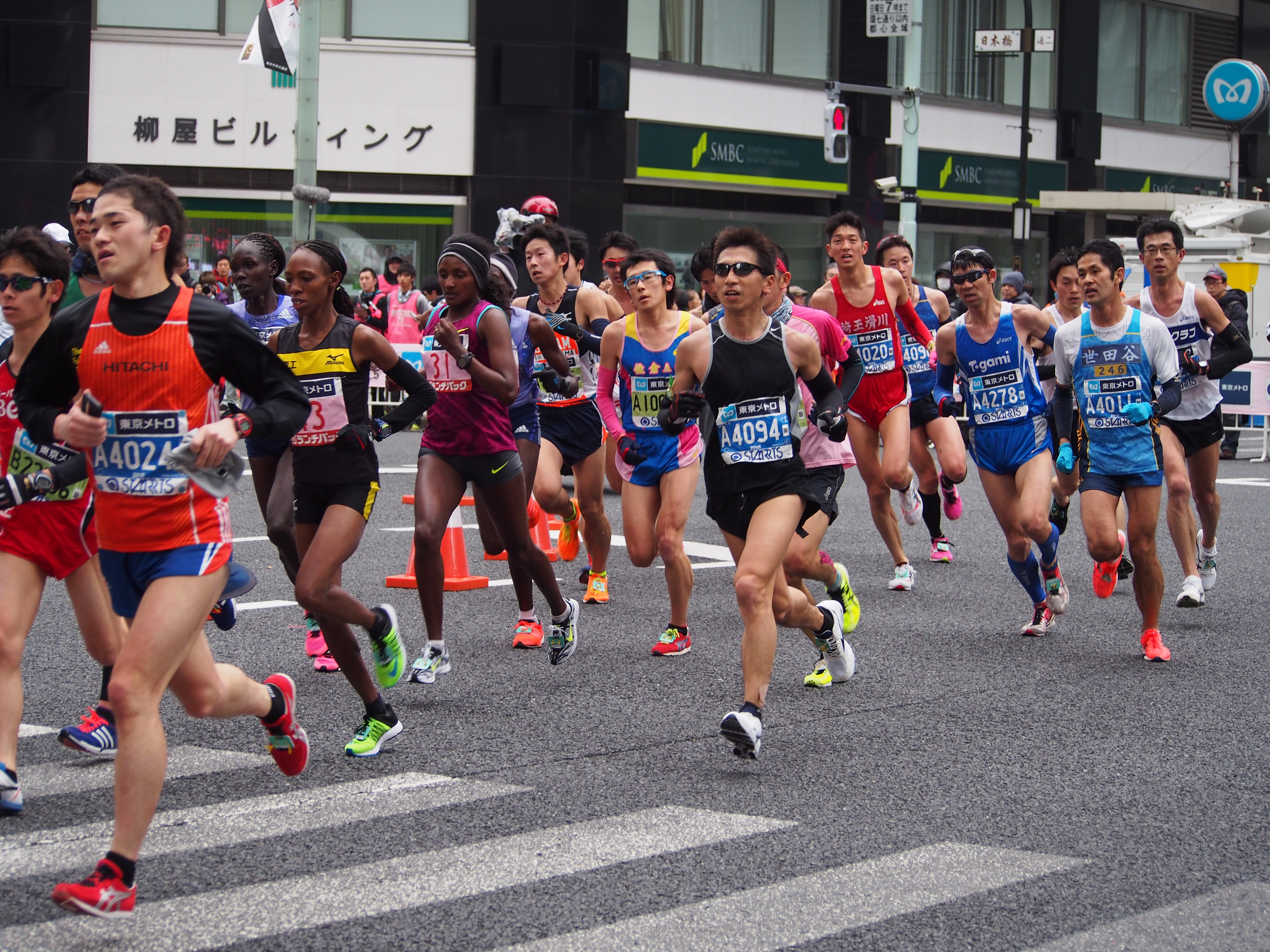 Women's top runner